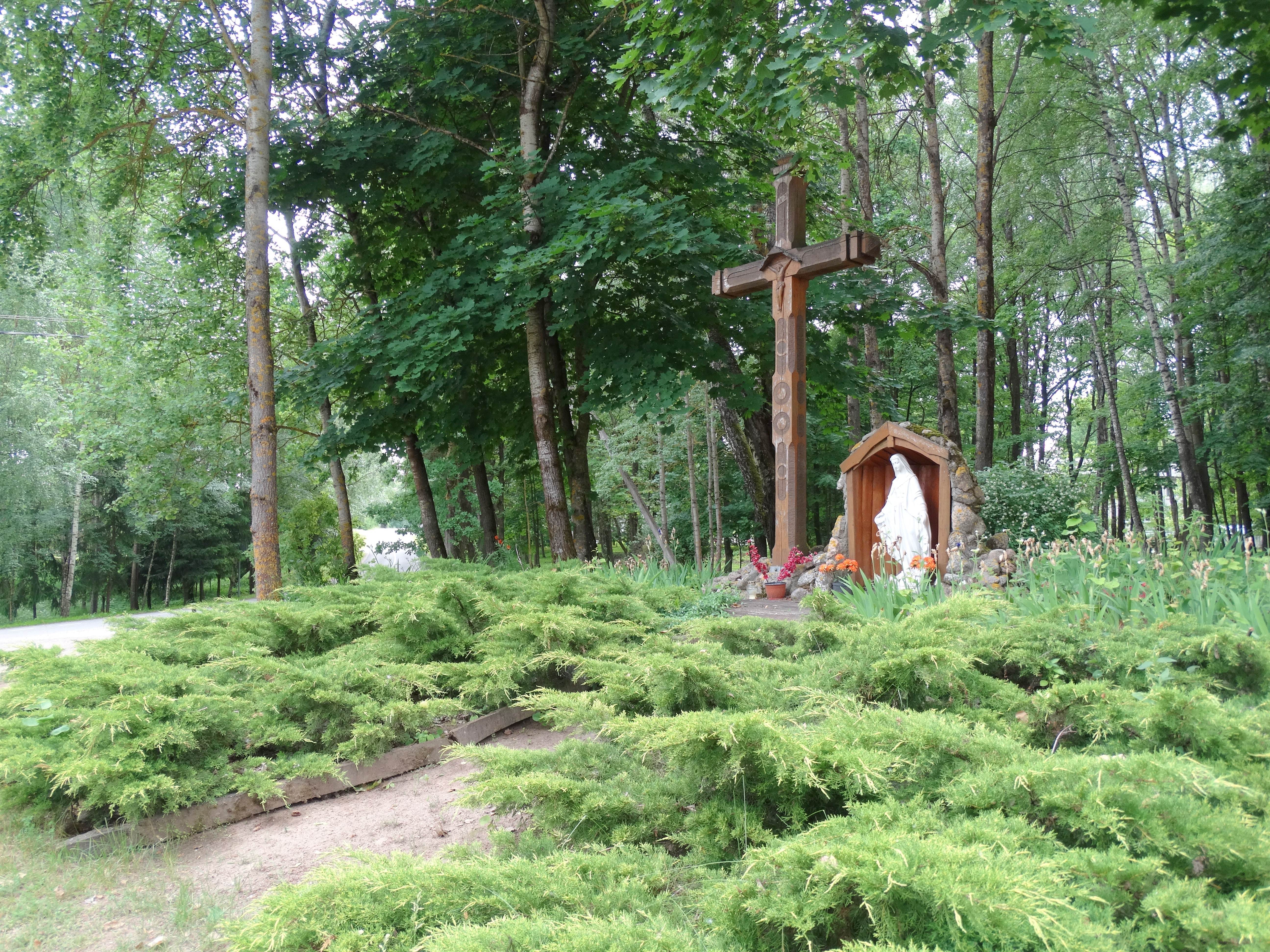 Community house, Bartkuškis, Širvintos District, Lithuania